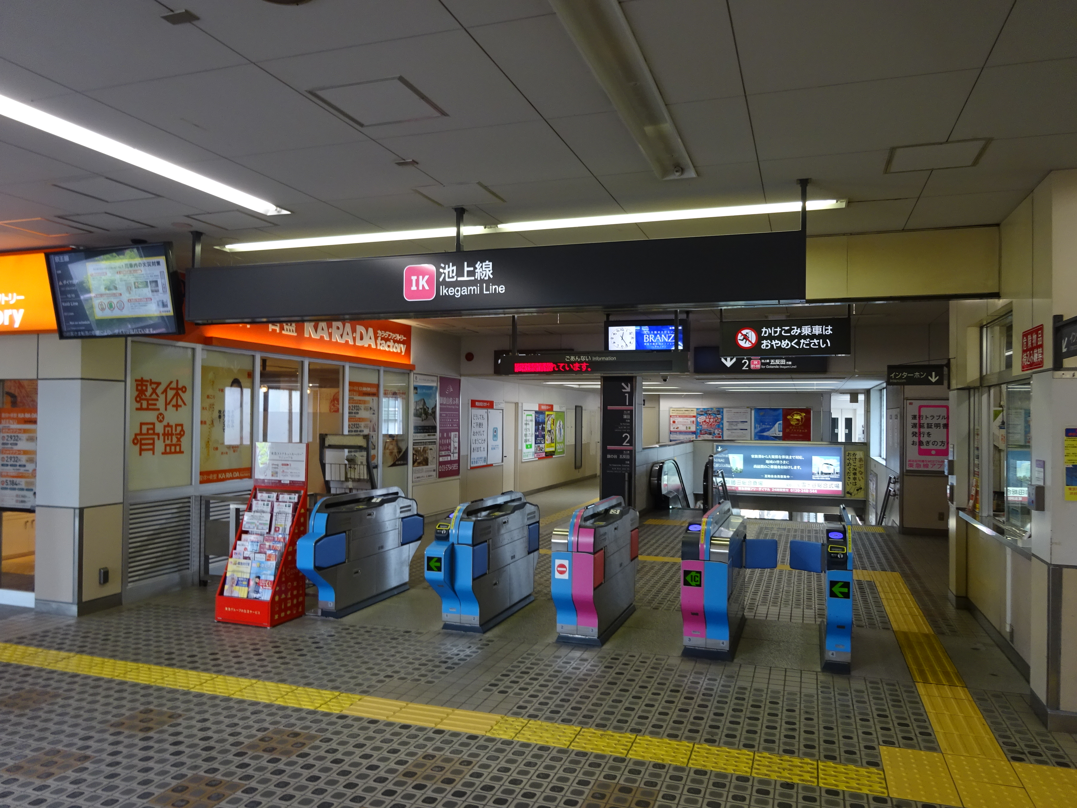 Ticket barriers of Yukigaya-ōtsuka Station